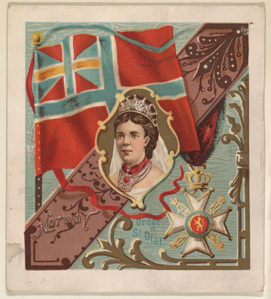 Print; Prints